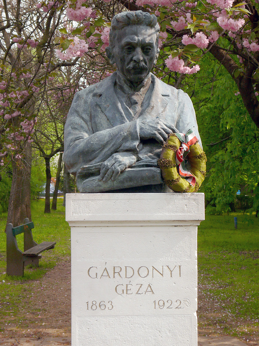 Statue of Géza Gárdonyi Hungarian writer, Gárdony-Agárd